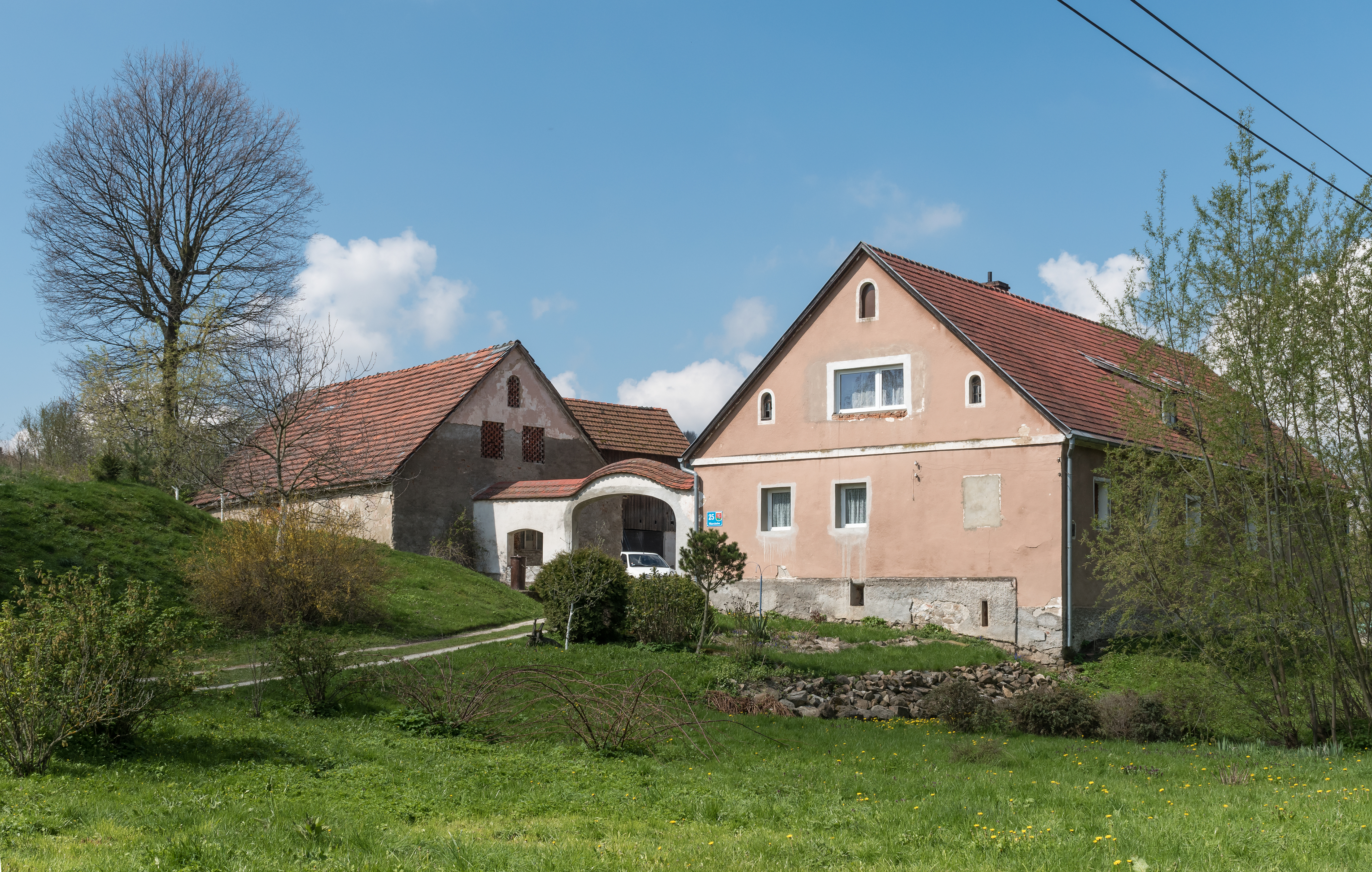 House No. 25 in Marcinów